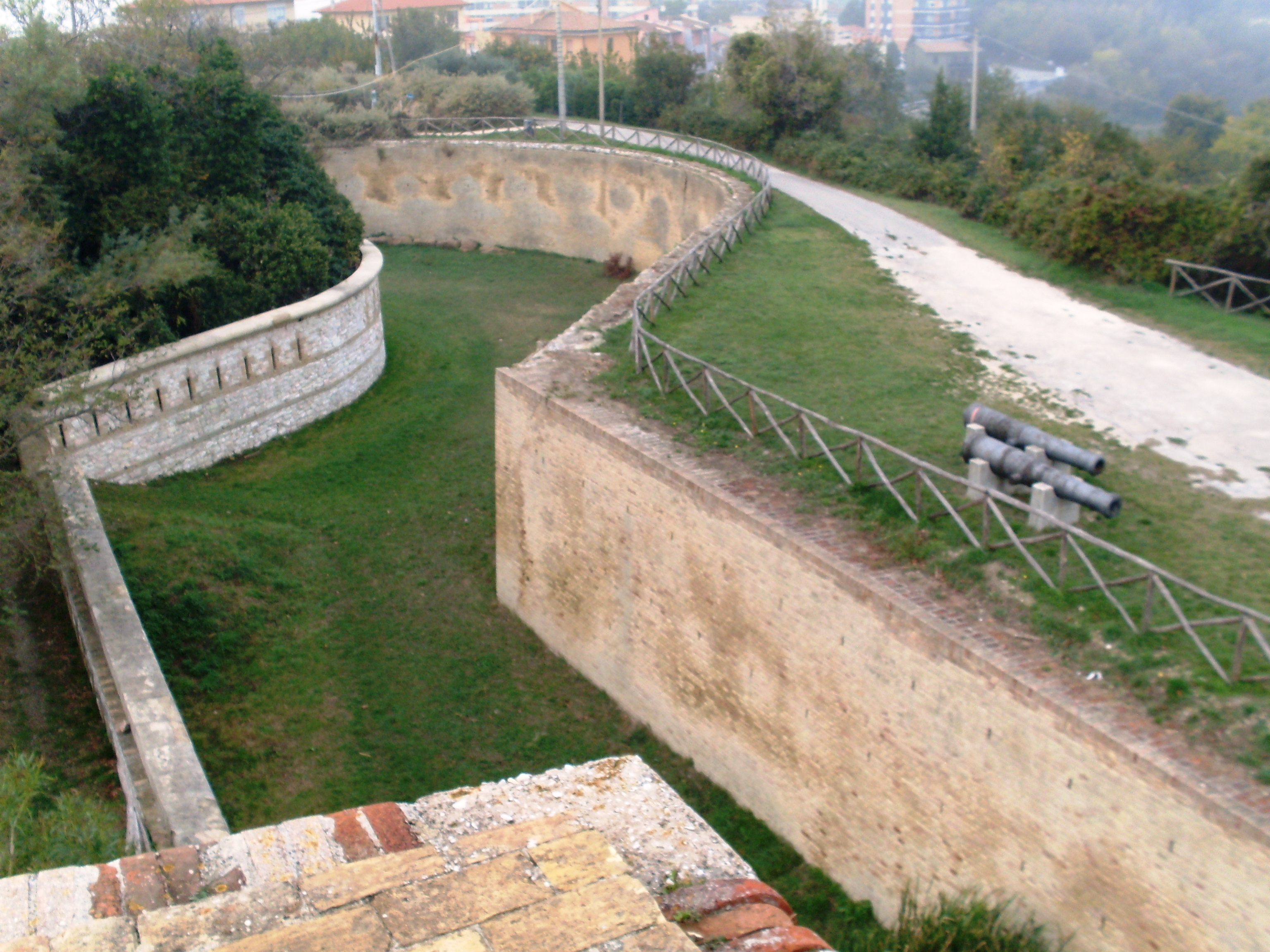 Italy Ancona Fort Altavilla 1863 - ditch and Carnot Wall